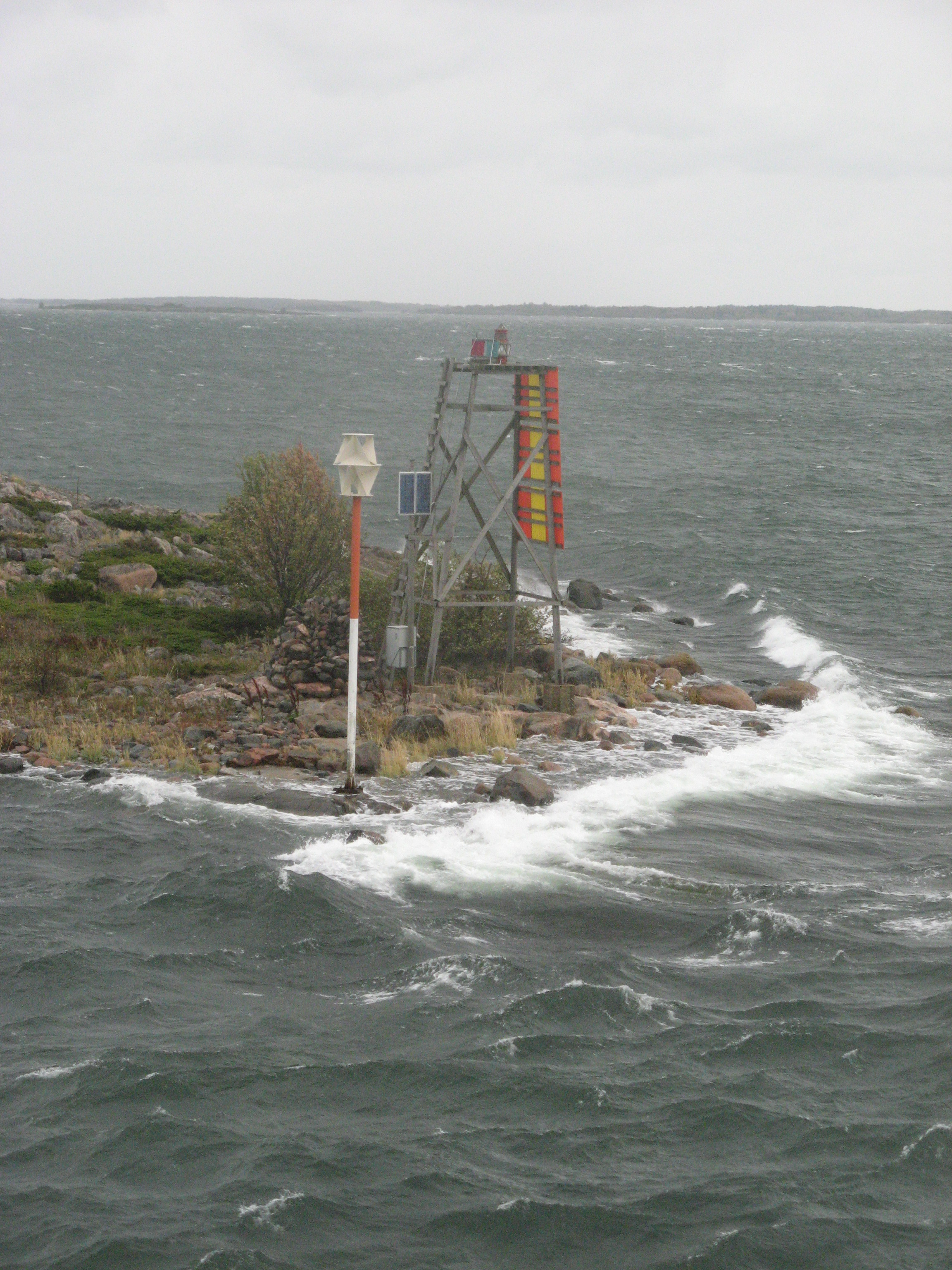 Radar mark and leading mark in the Åland archipelago. The solar panel powers the leading light on top of the beacon.